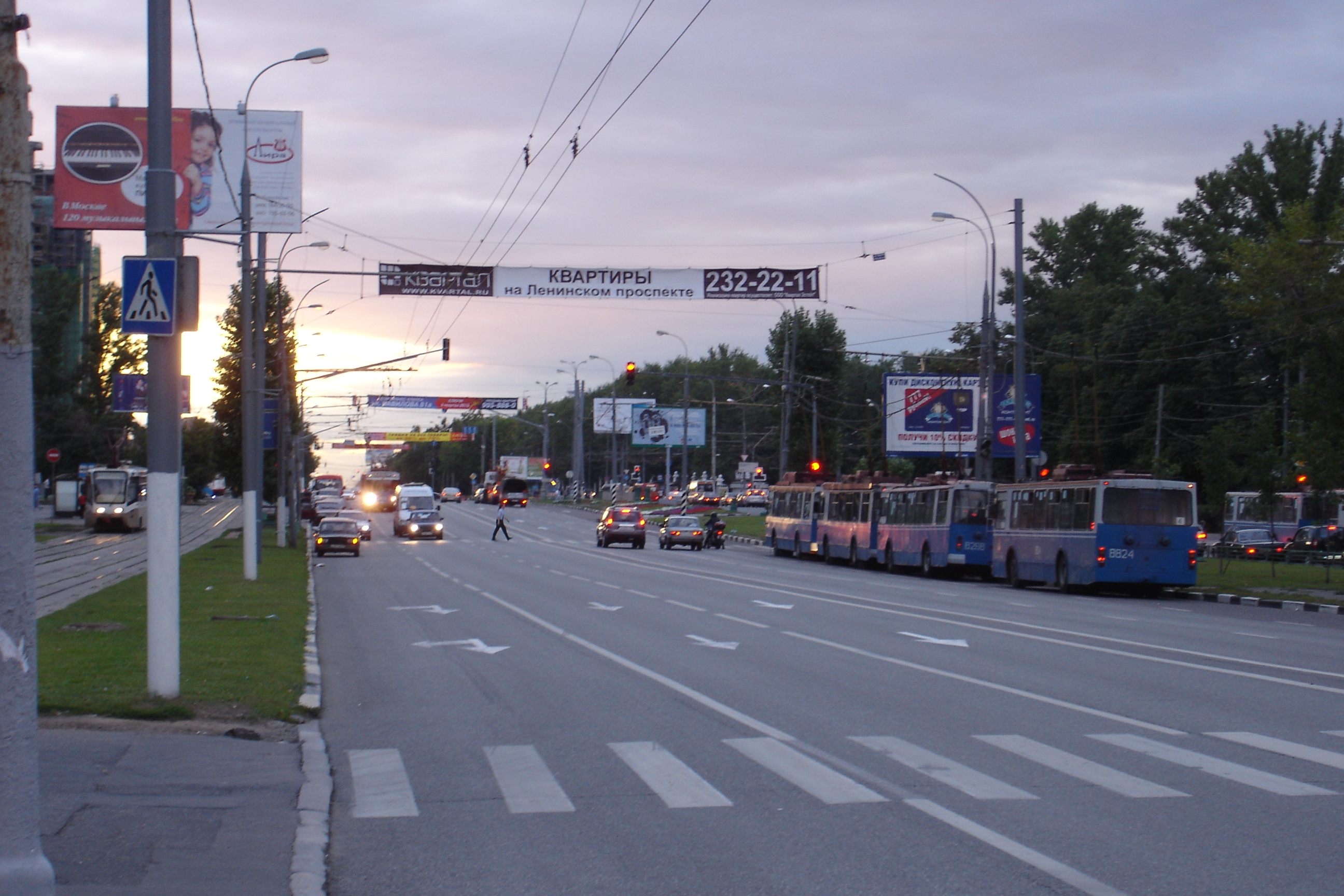 Lomonosovsky prospect, Moscow, Russia. View at the segment of street and Javakharlal Neru square.